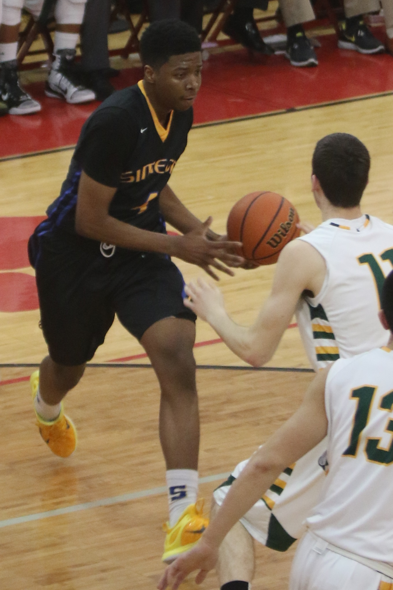 Isaiah Moss in a game between the top two teams in the state.